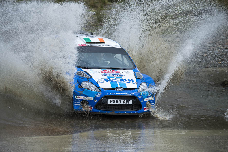 Wales Rally Great Britain 2012 Craig Breen,Ford Fiesta S2000,Hafren Sweet Lamb 2,Motorsport,Paul Nagle,Rally,Rallye,SS5,WP5,WRC,Wales Rally GB